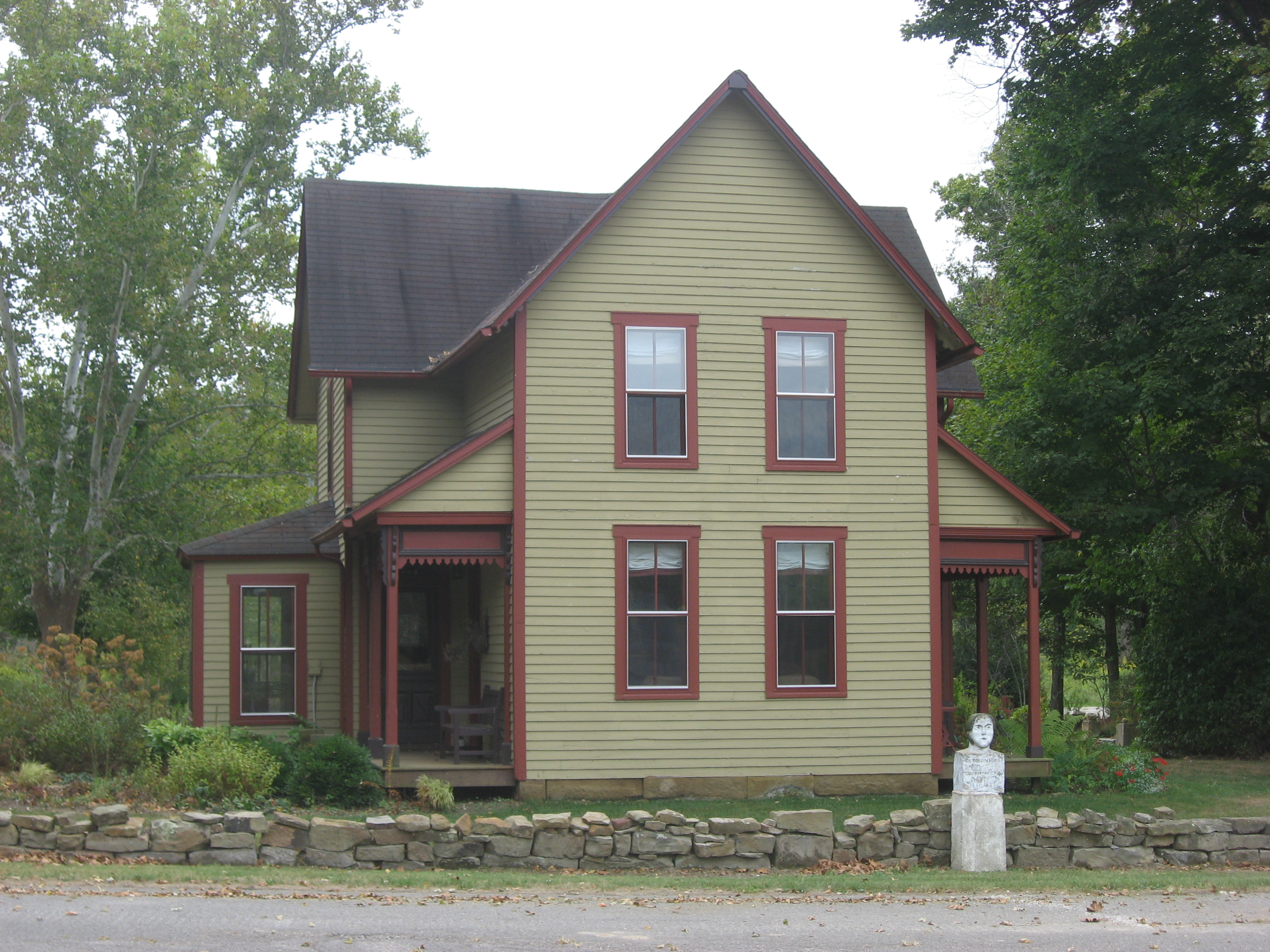 Front of the Thomas A. Hendricks House and Stone Head Road Marker, located on the southern side of the intersection of State Road 135 and Bellsville Road at Stone Head in Van Buren Township, Brown County, Indiana, United States. Built in 1891 and now a bed and breakfast, the house is listed on the National Register of Historic Places, along with the 1851 road marker.